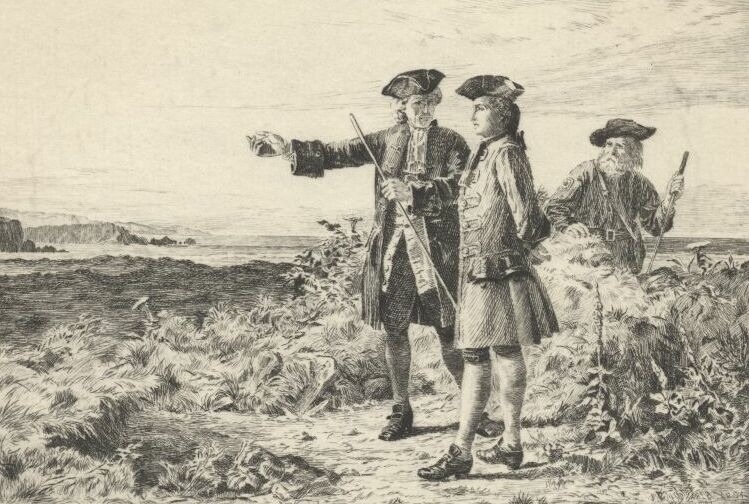 Frontispiece to The Antiquary by Sir Walter Scott